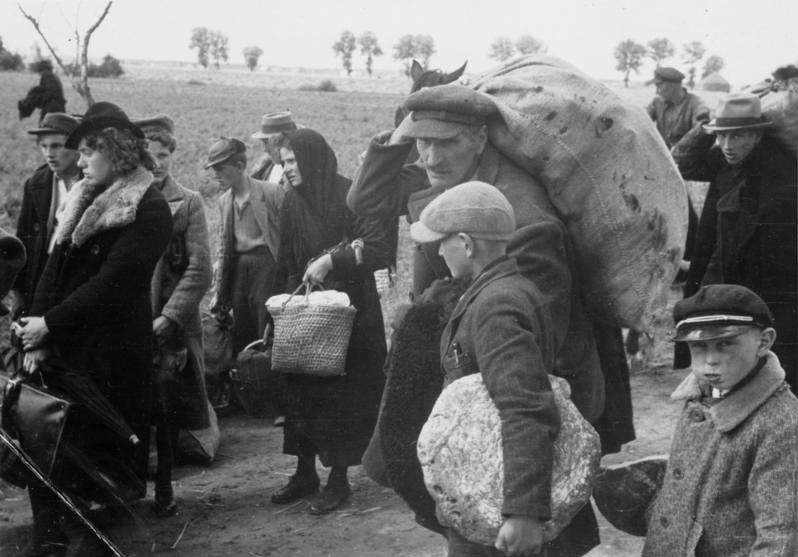 Note: This description has been identified as biased or incorrect: This was forced resettlement not evacuation. Wartheland, Evakuierte Polen in Schwarzenau in der Nähe des Bahnhofs